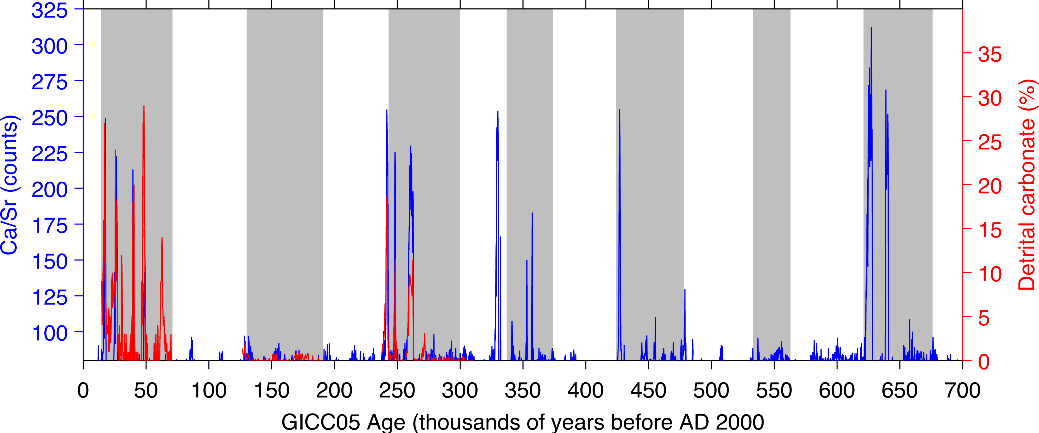 The ratio of calcium versus strontium (Ca/Sr) from a marine North Atlantic drill site (IODP U1308), that serves as a proxy for the mineralogically-distinctive "detrital carbonate" that characterizes Heinrich events is shown in blue (Hodell et al., 2008). Shown in red are petrologic counts of detrital carbonate over the last three glaciations (Bond et al., 1999; Obrochta et al., 2012, Obrochta et al., 2014) confirms that Ca/Sr is an indicator of Heinrich events.